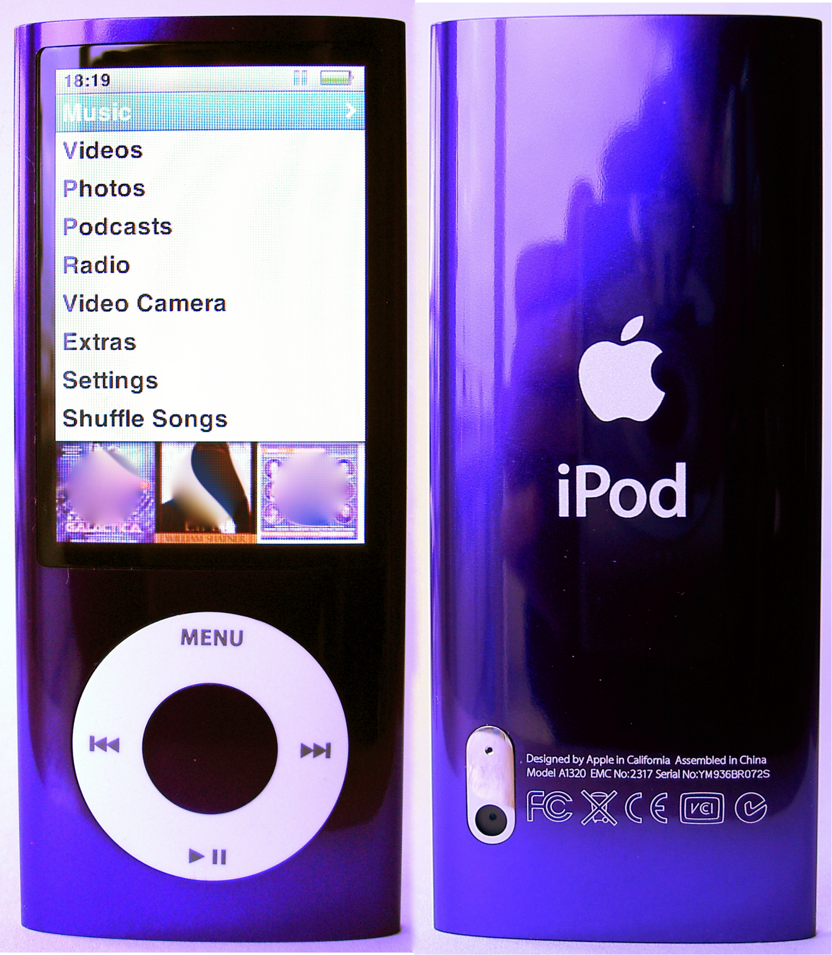 Photograph of iPod Nano 5th generation purple front and back.